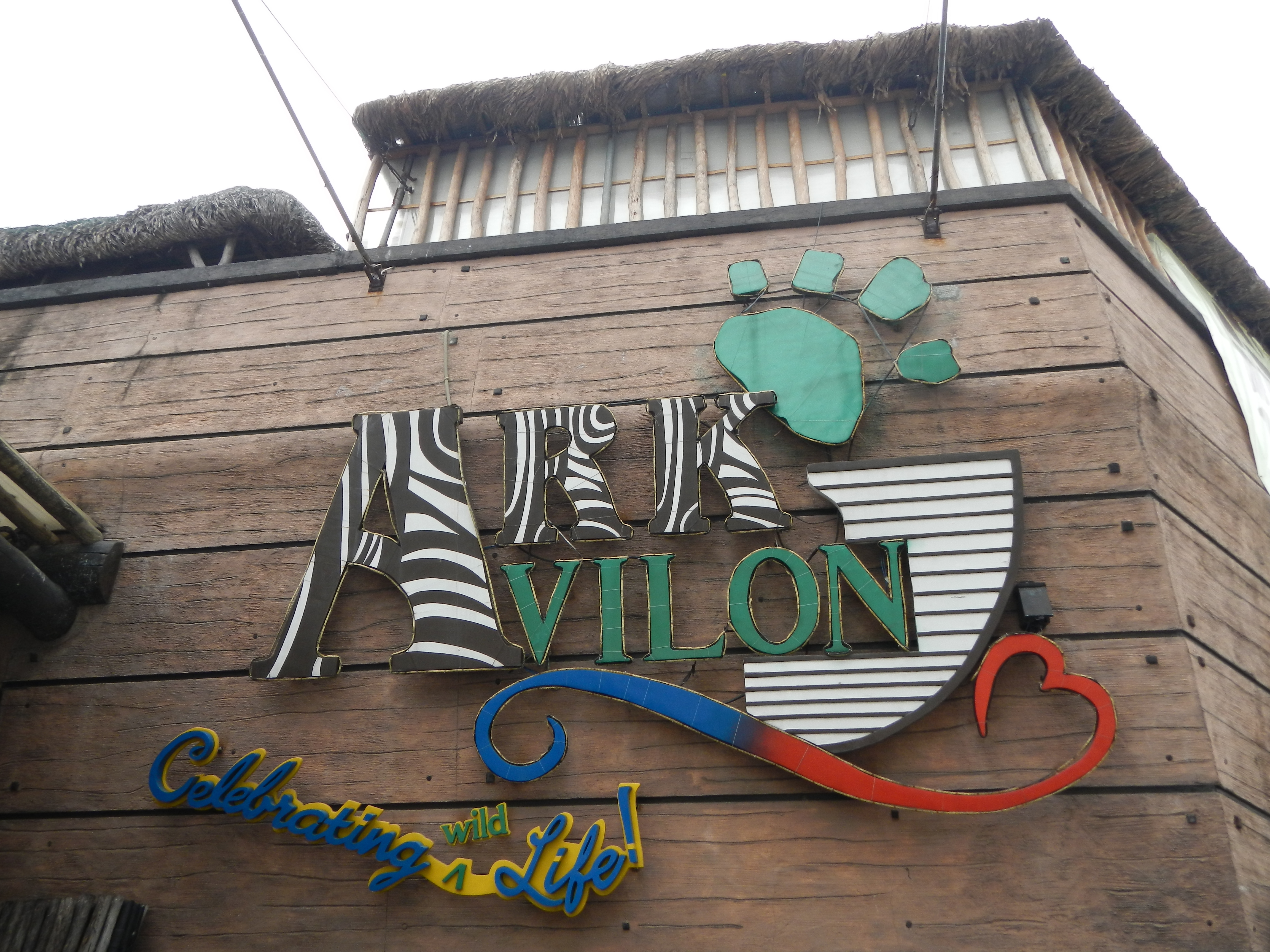 Upload Wizard photos of - Ark Vilon Zoo